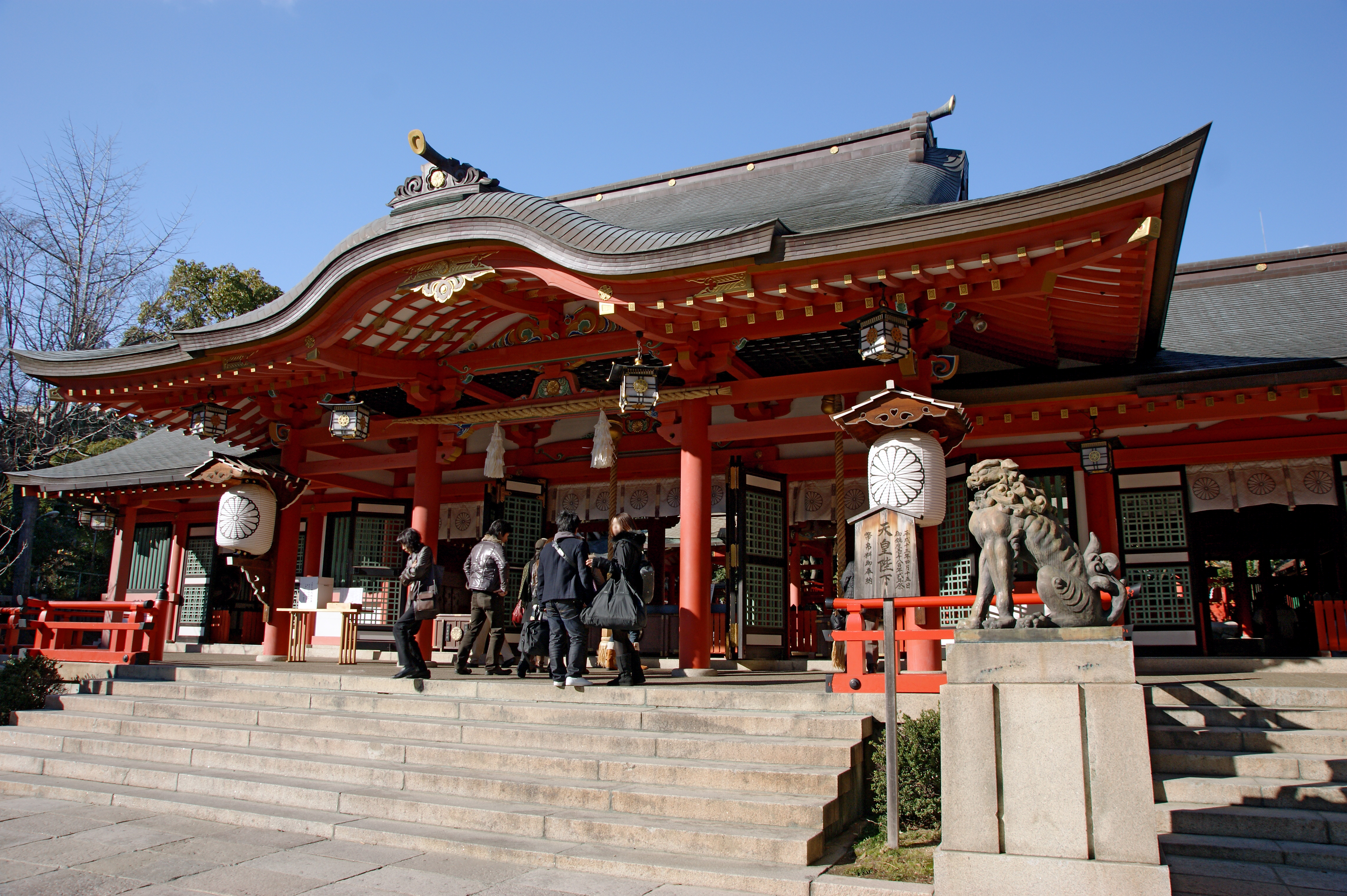 Ikuta-jinja, Kobe, Hyogo prefecture, Japan